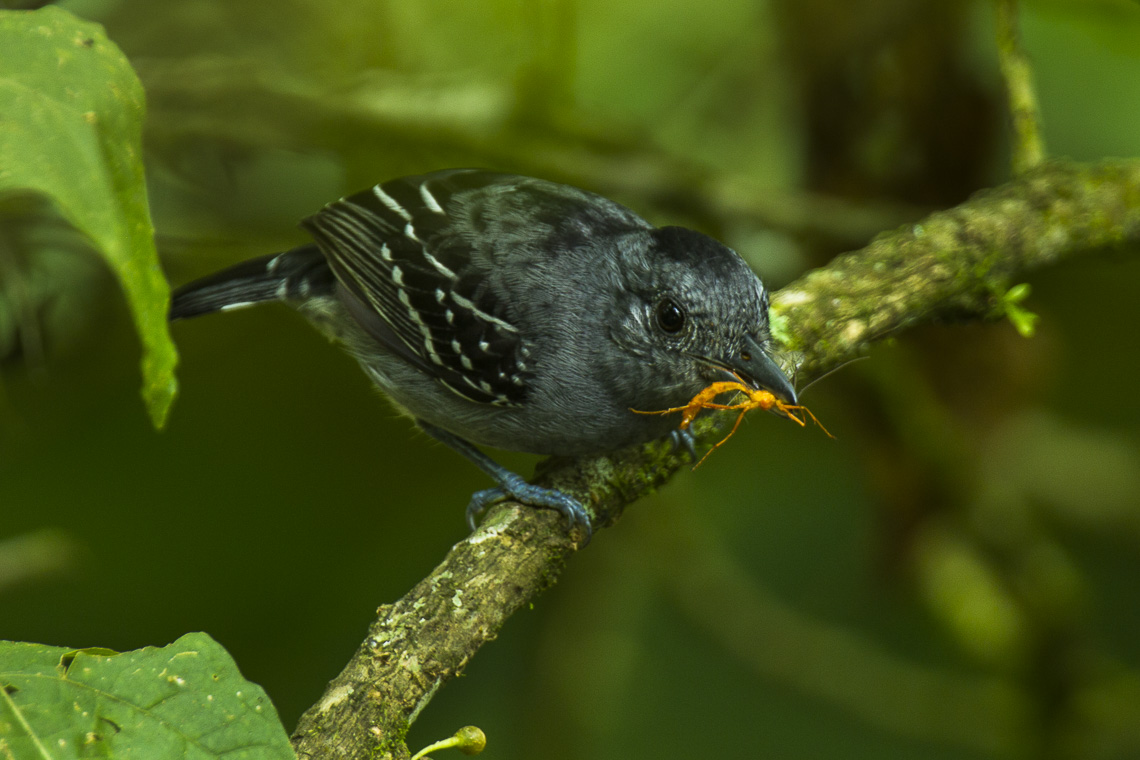 Western Slaty Antshrike - Bonaventura Lodge _S4E8427